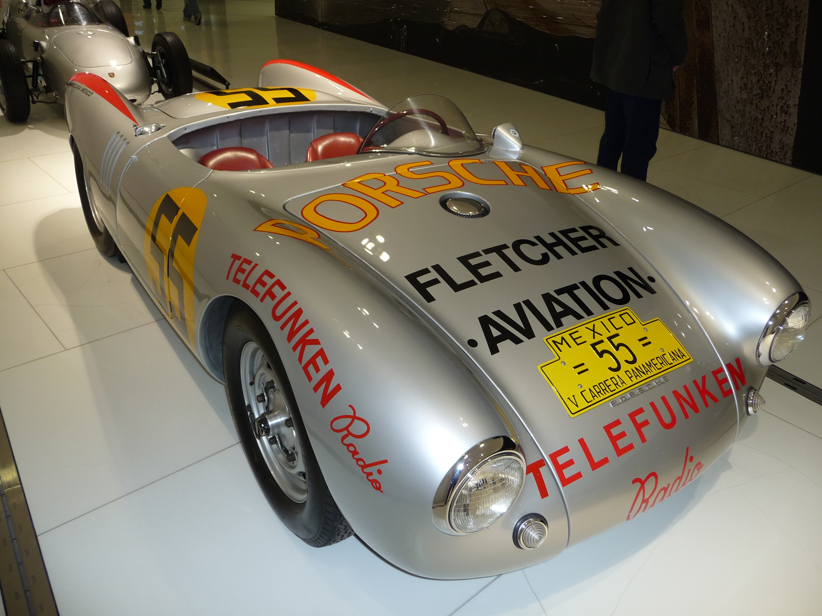 Porsche Panamericana front taken at Porsche Museum, Stuttgart, Germany